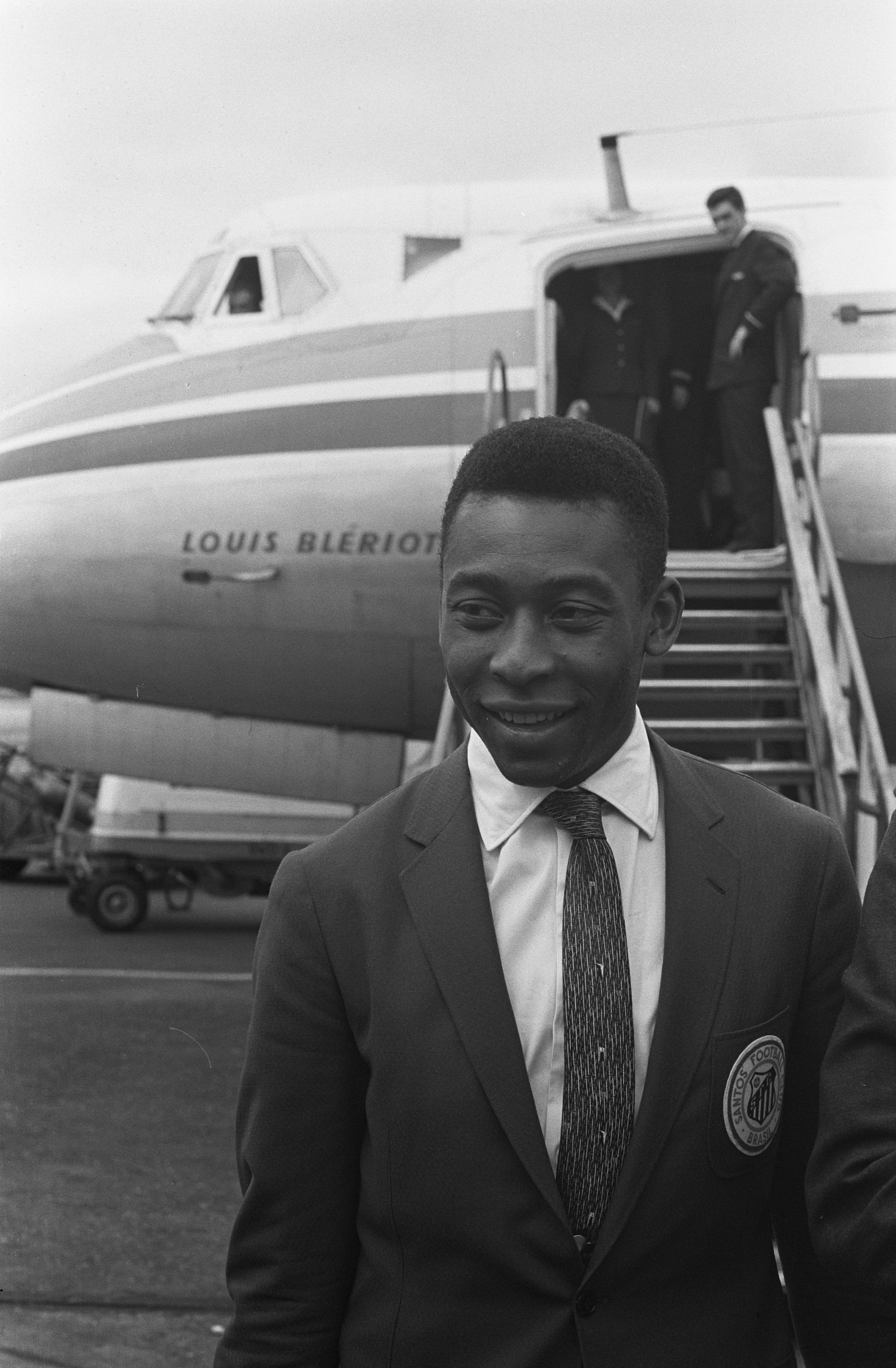 Pelé at Schiphol Airport, 19 Oct. 1962